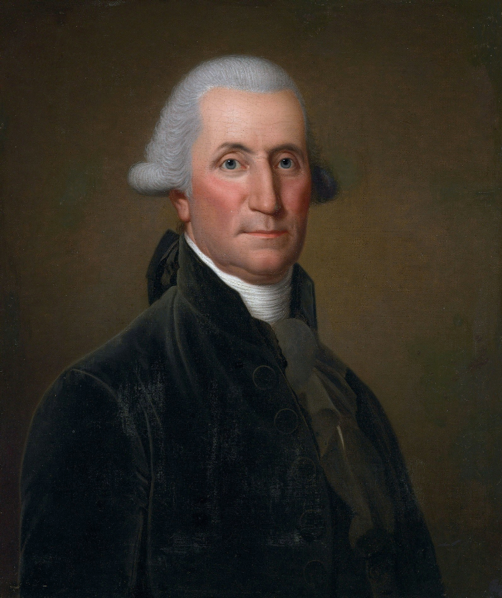 Portrait of George Washington oil on canvas 24 7/8 x 20½ in.